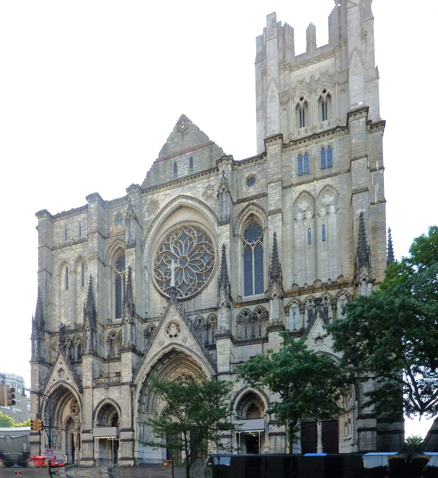 Cathedral of Saint John the Divine, New York